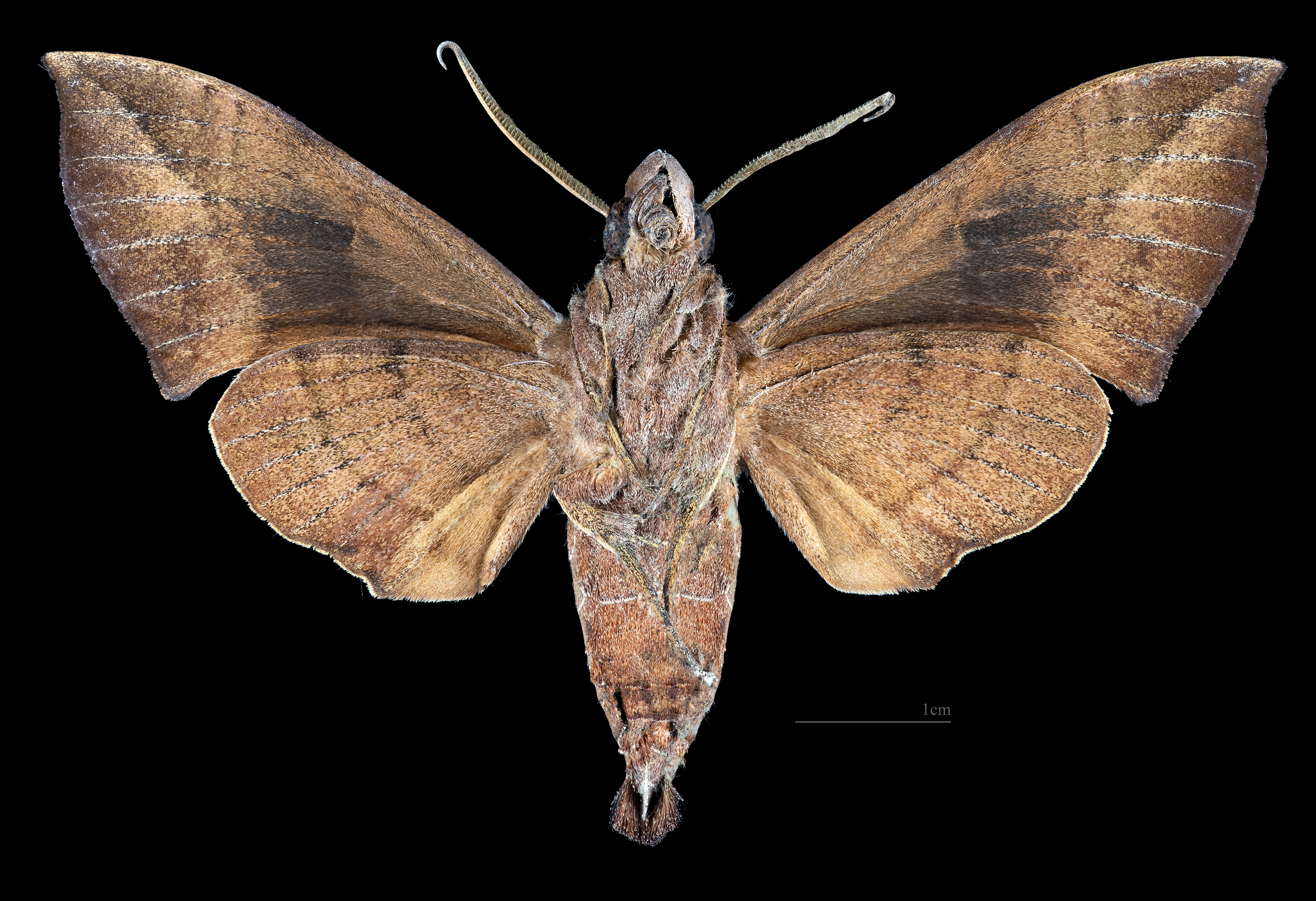 Eurypteryx alleni - △ Ventral side Collection of the Mathematician Laurent Schwartz